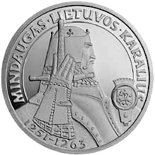 50 litas coin issued to honour Mindaugas, the King of Lithuania (From the series "The Rulers of Lithuania") Silver Ag 925 Quality proof Diameter 34.00 mm Weight 23.30 g The words on the edge of the coin: IS PRAEITIES TAVO SUNUS TE STIPRYBE SEMIA* (FROM THE PAST LET YOUR SONS DERIVE THEIR STRENGTH) The designer of the coin is Antanas Zukauskas Issued 1996 Minted 6,000 pcs Distribution terminated 2001 Distributed 4,982 pcs The coin was minted at the state enterprise Lithuanian Mint.